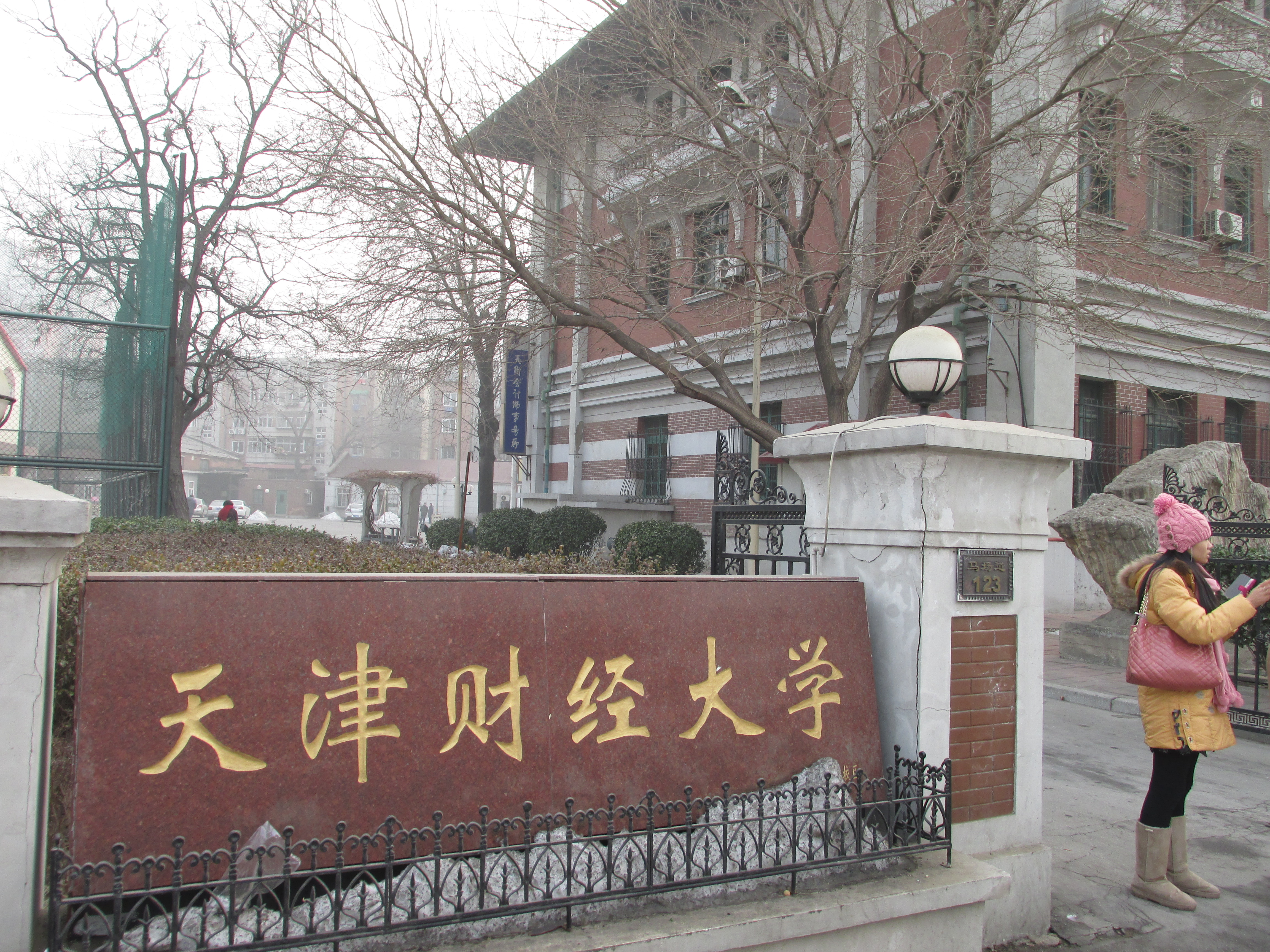 North Gate of Tianjin University of Finance and Economics in winter